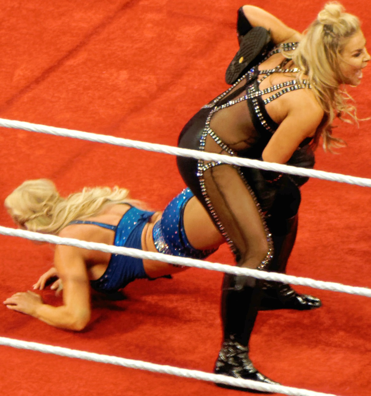 Natalya applying her Sharpshooter finishing maneuver on Charlotte the Raw after WrestleMania 32 in April 4, 2016.